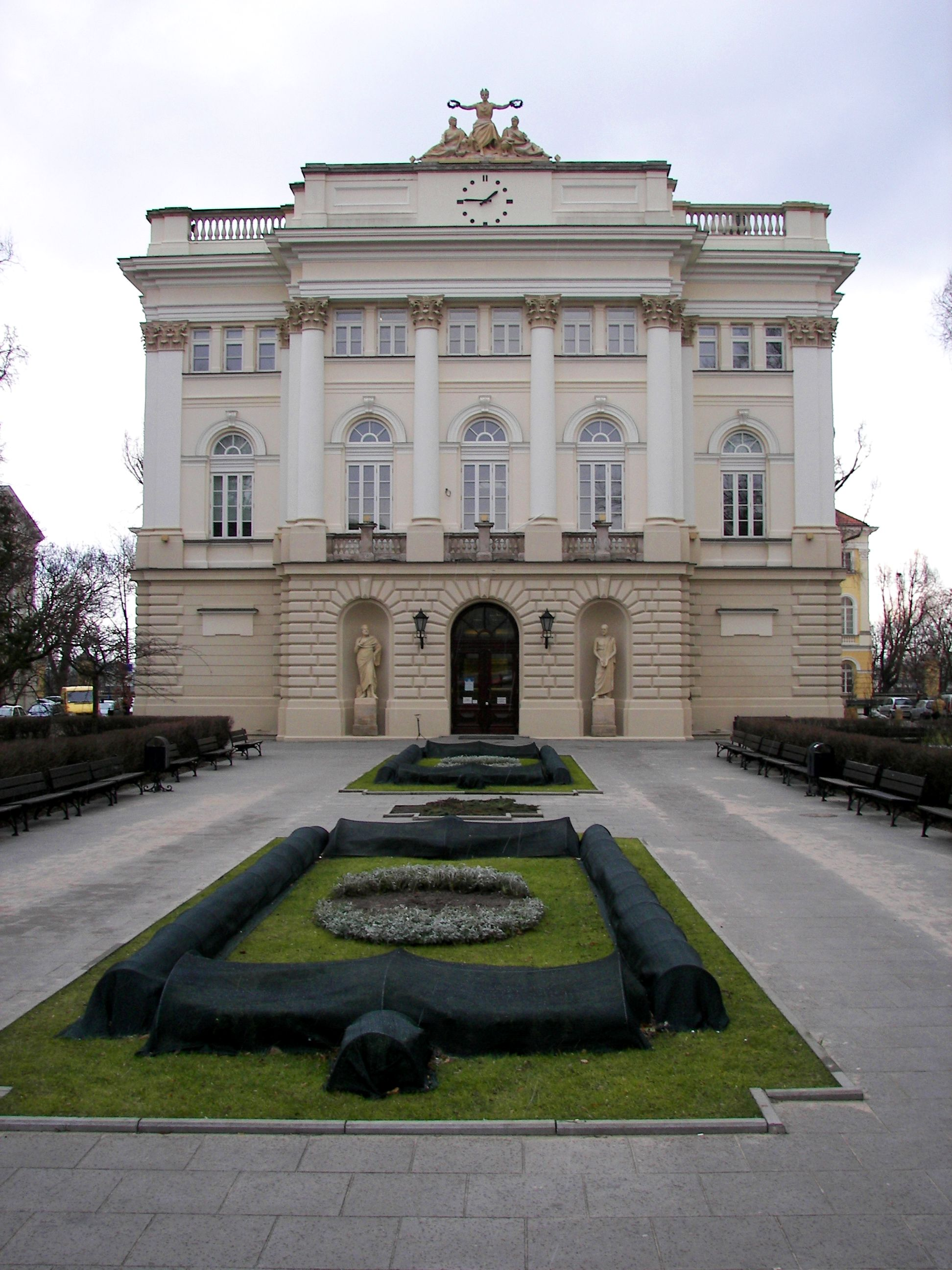 Warsaw University Main Campus, Poland